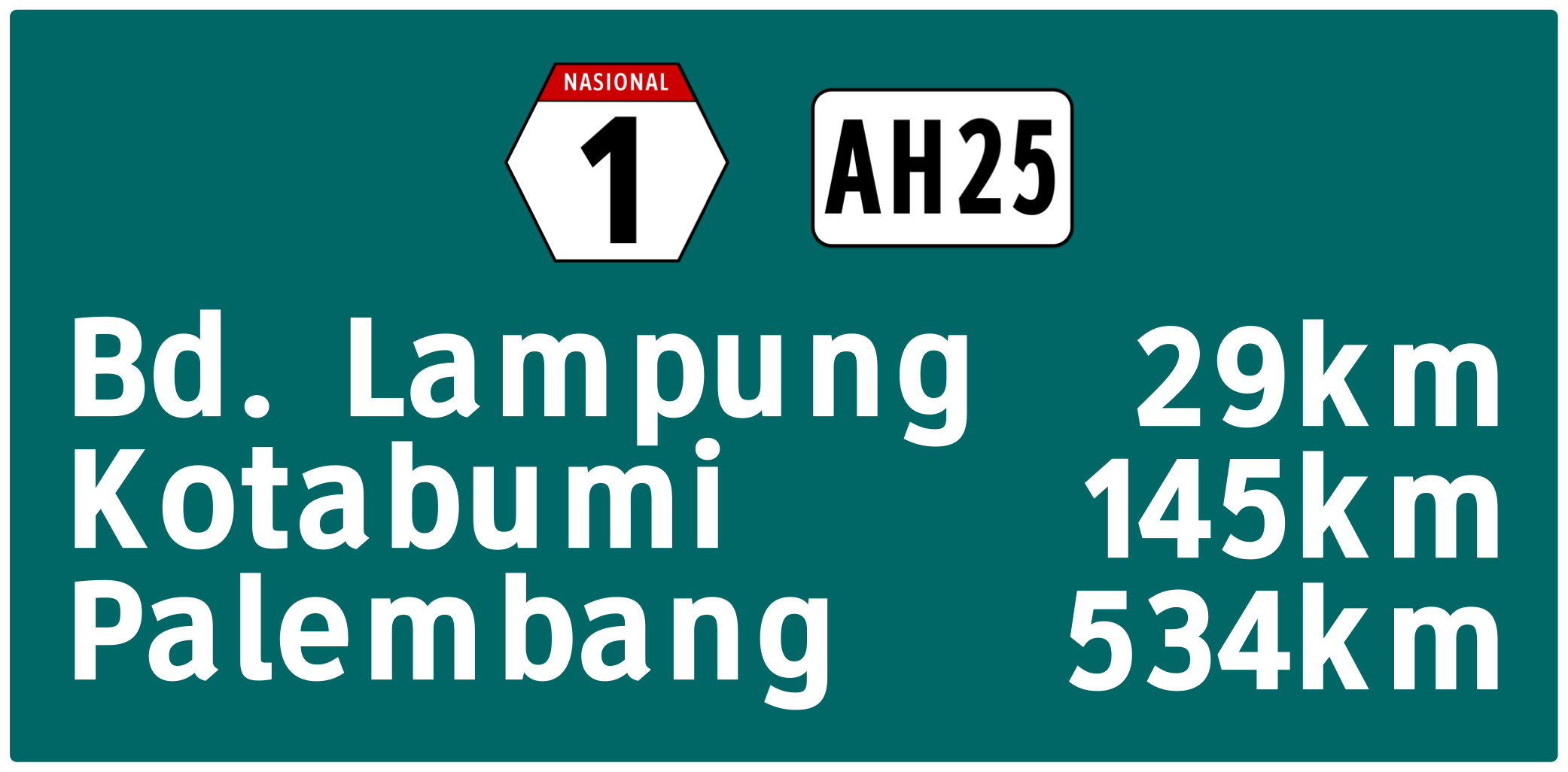 Indonesian directional sign design according to PM.14 tahun 2014 tenting Rambu Lalu Lintas